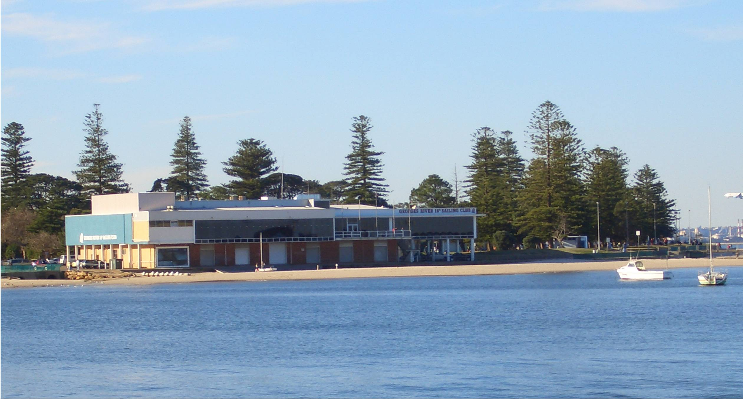 Sandringham, Sydney, Australia. I took this photo on the 9th July 2006. J Bar 01:02, 1 September 2006 (UTC)